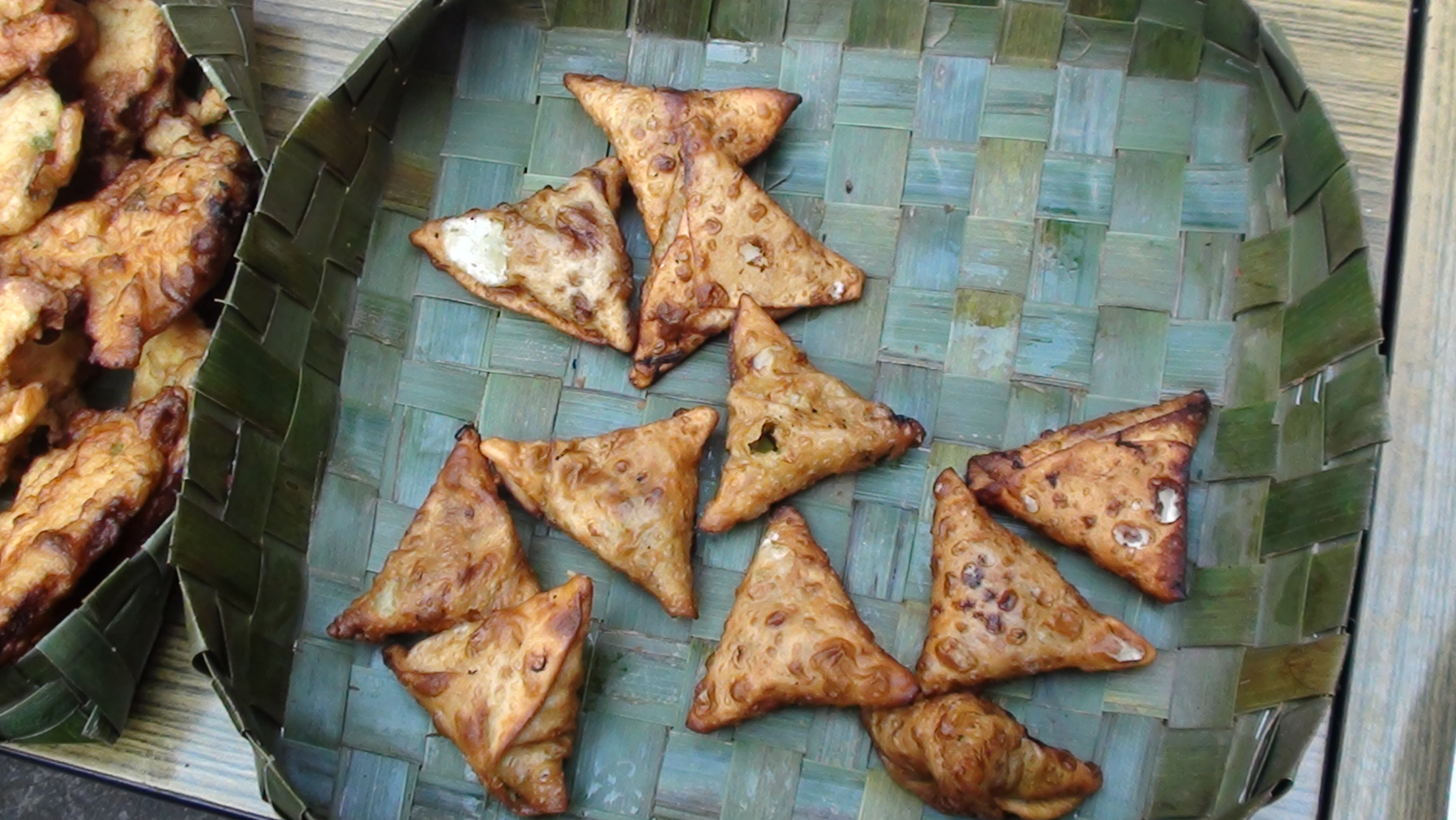 samosa From Wikisangamolsavam jadan